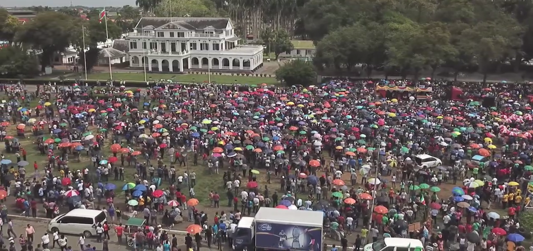 Anti-regeringprotesten in Paramaribo, Suriname